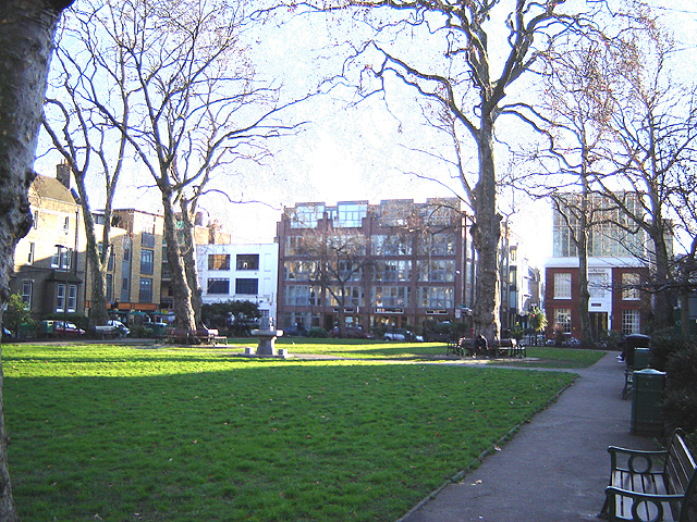 Hoxton Square, Hoxton, London. 28 January 2006. Photographer: Fin Fahey.